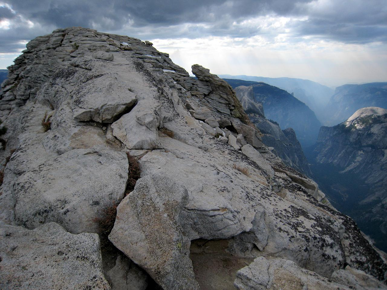 The knife-edge arete of Clouds Rest, just NE of the summit. There is ~2000 feet of steep granite immediately to the right.